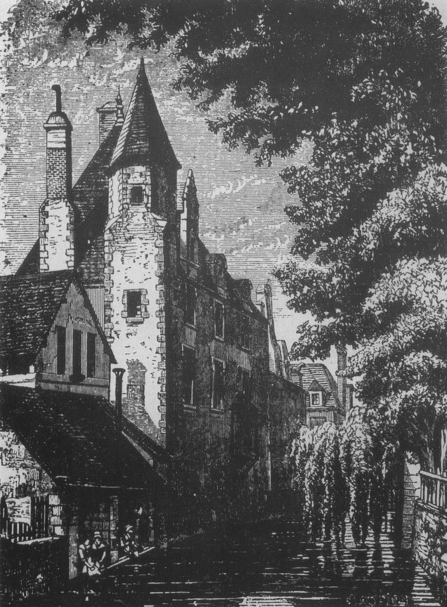 The Collège de Vendôme, an engraving by A. Queyroy